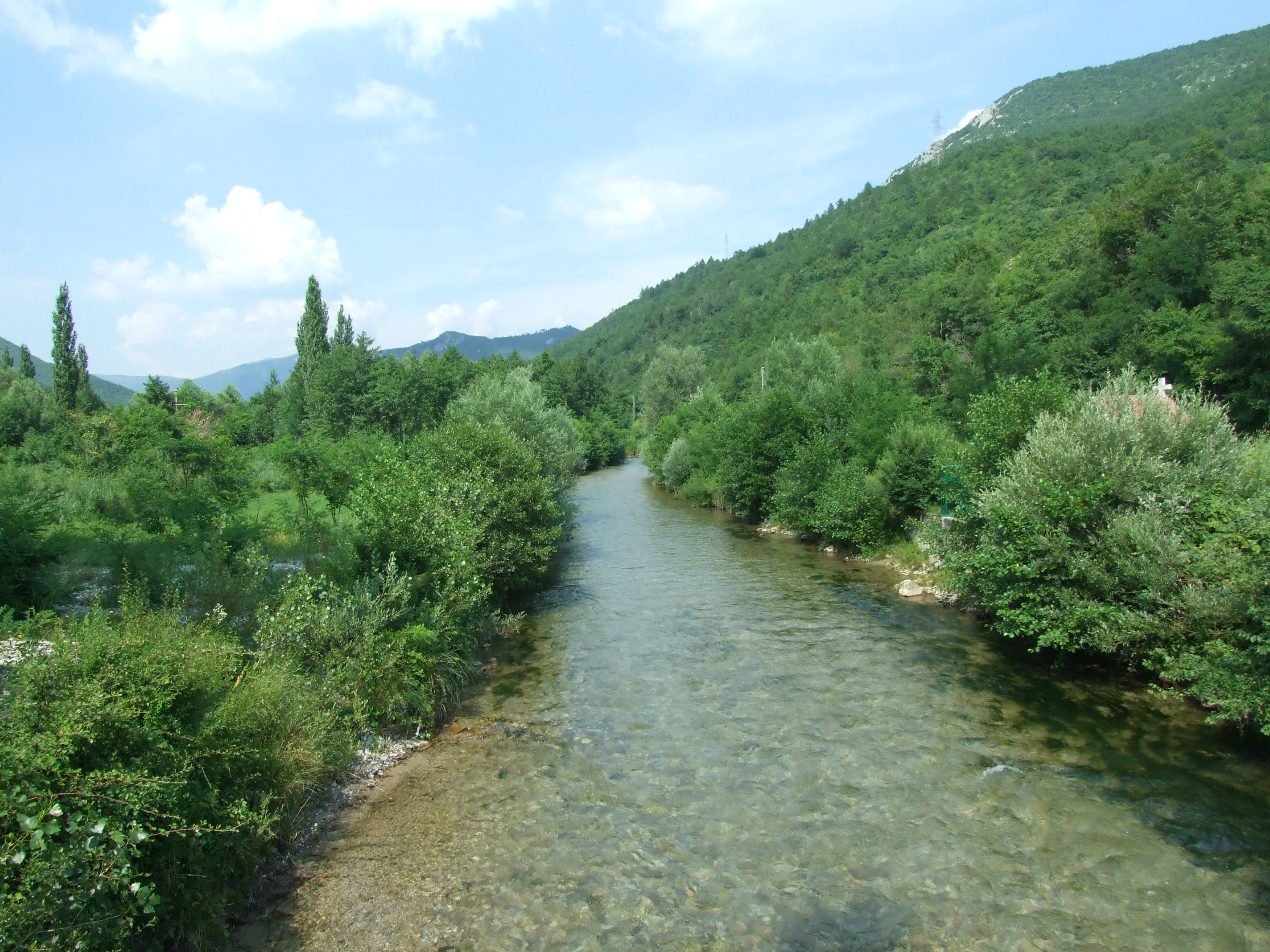 River Butiznica near Knin, Croatia.